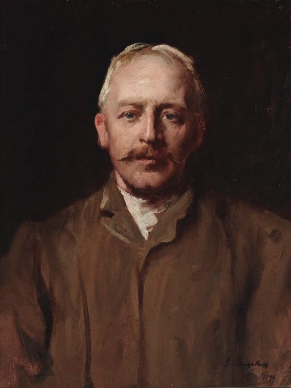 Portrait of Julian Ashton, oil on canvas, 61.0 x 45.0 cm stretcher; 78.7 x 64.1 x 6.0 cm frame.